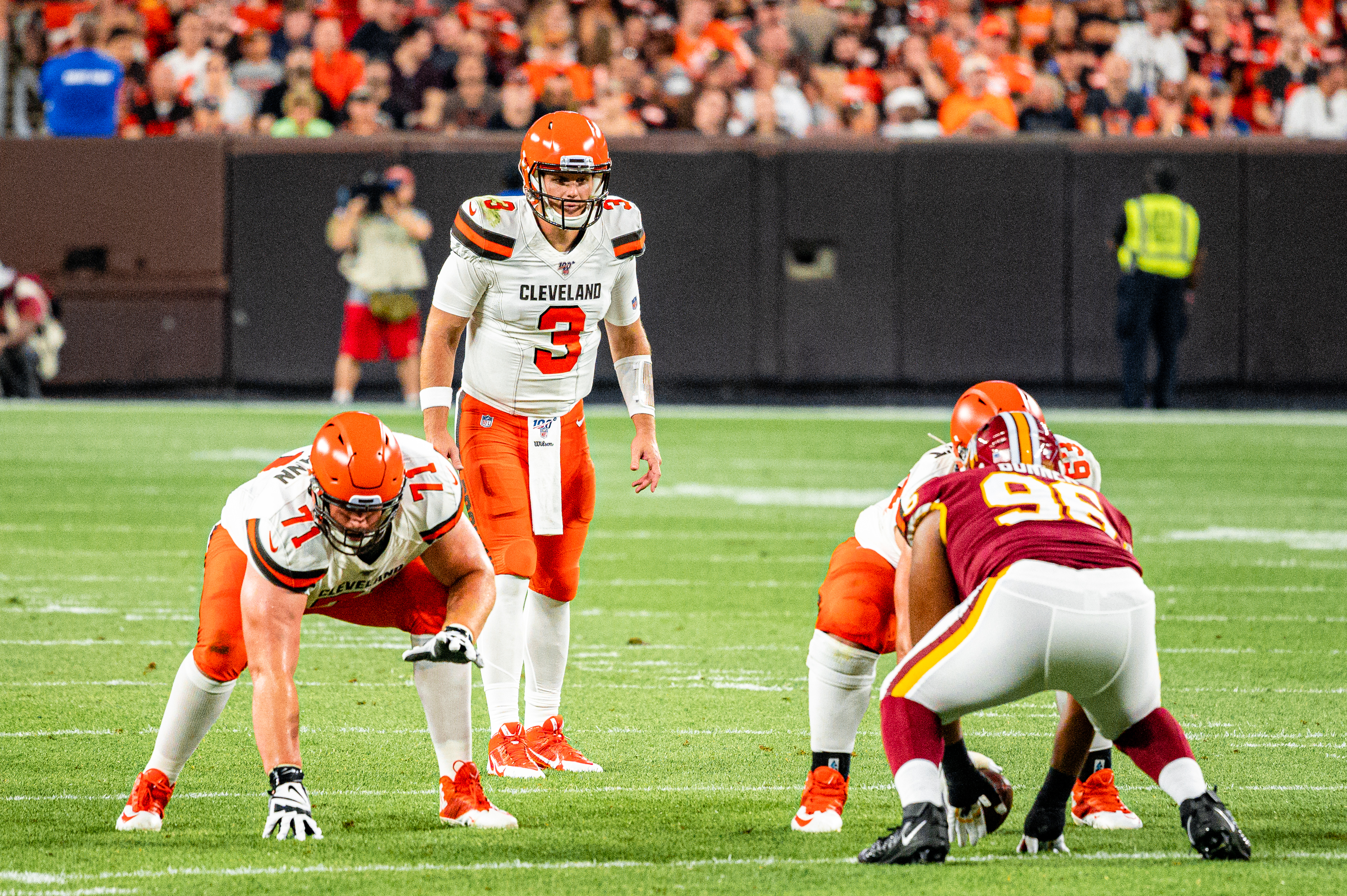 Cleveland Browns quarterback, Garrett Gilbert, during a preseason game against the Washington Redskins on August 8, 2019.